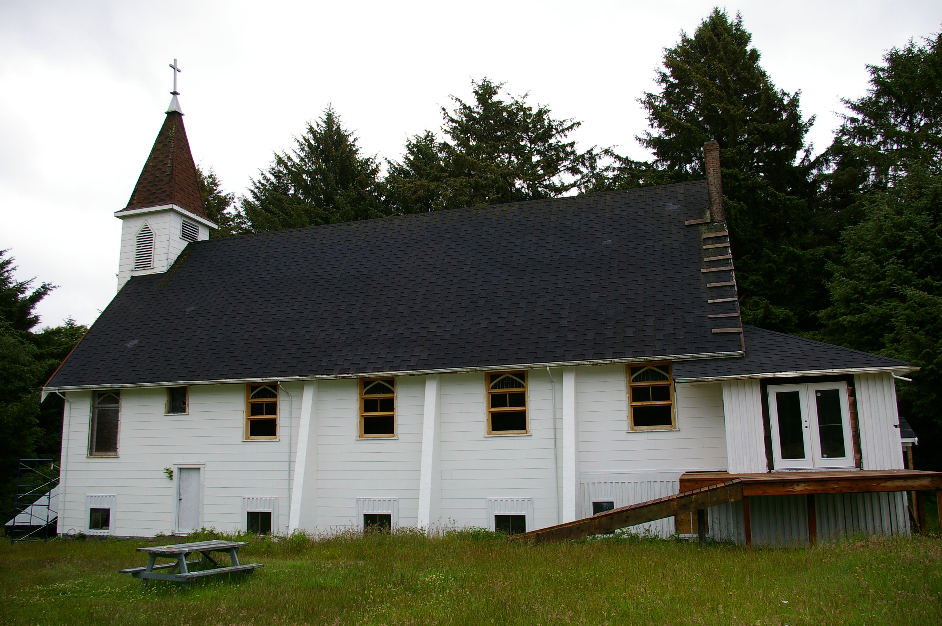 Yuquot Church